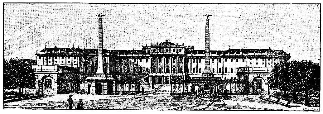 Schönbrunn Palace